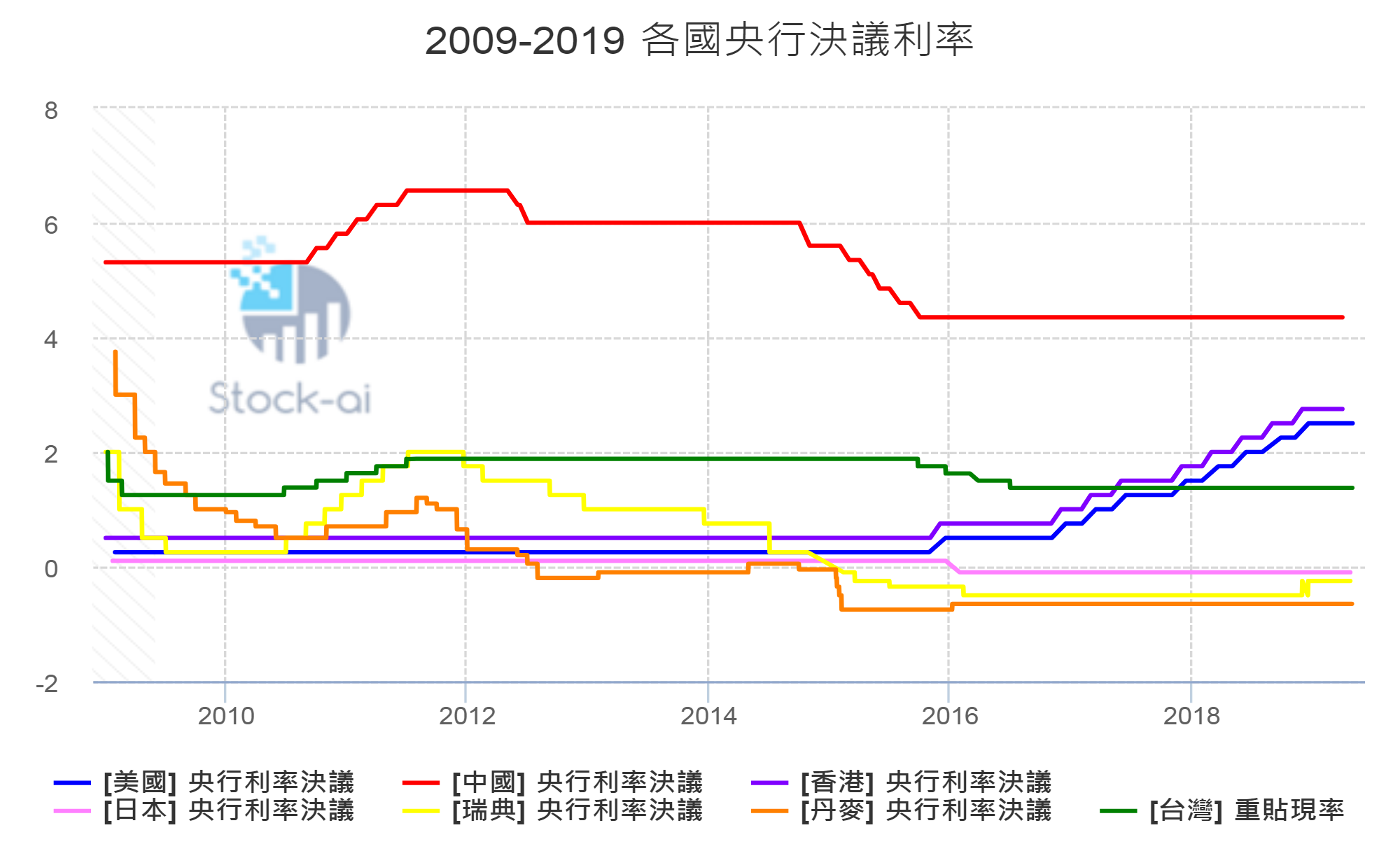 This chart shows how the interest rate of the USA, China, Hong Kong, Taiwan, Sweden, Denmark and Japan changed in the past decade.